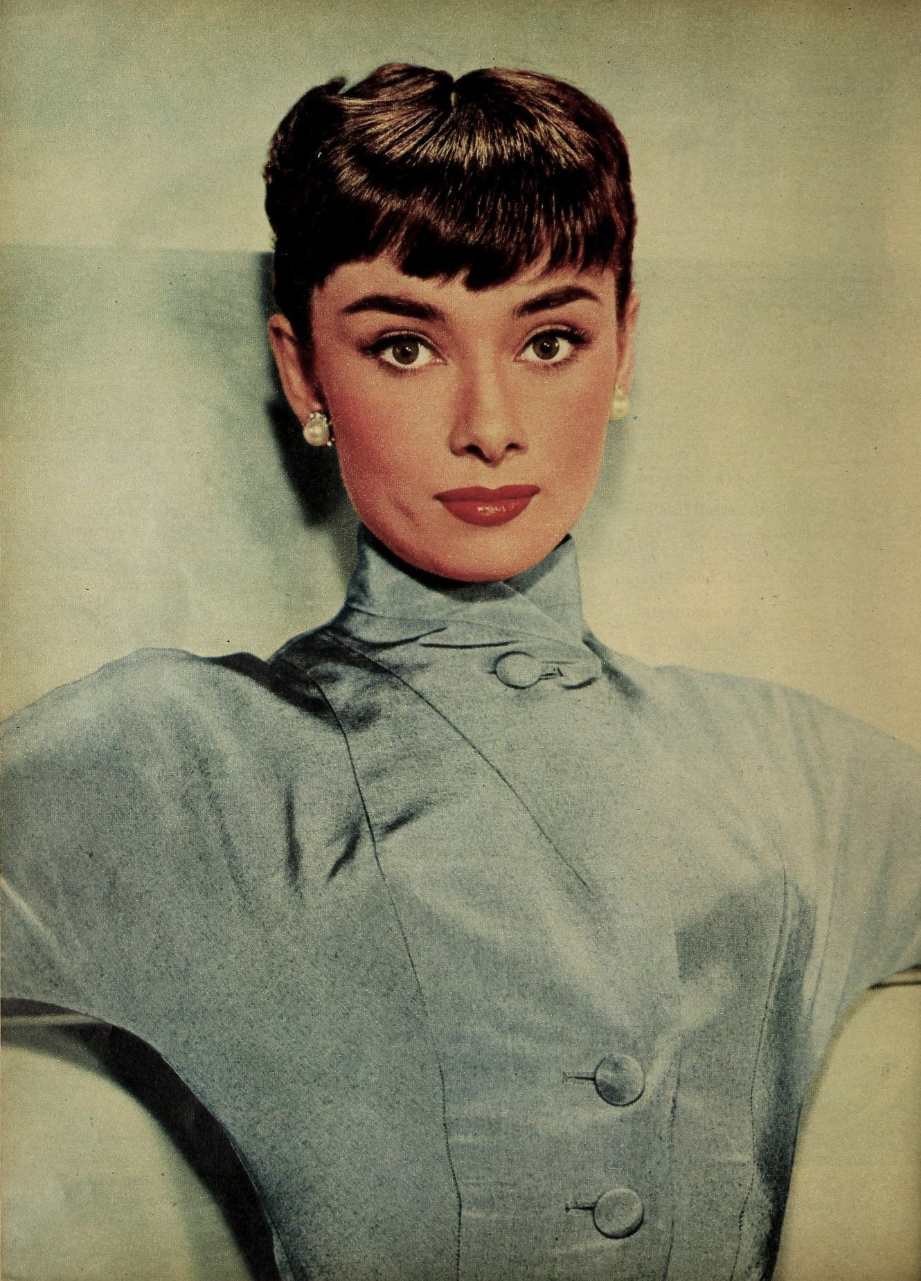 Audrey Hepburn by Bud Fraker, 1953